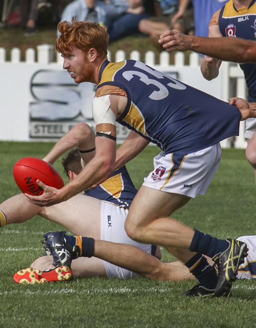 Australian rules footballer preparing to handball